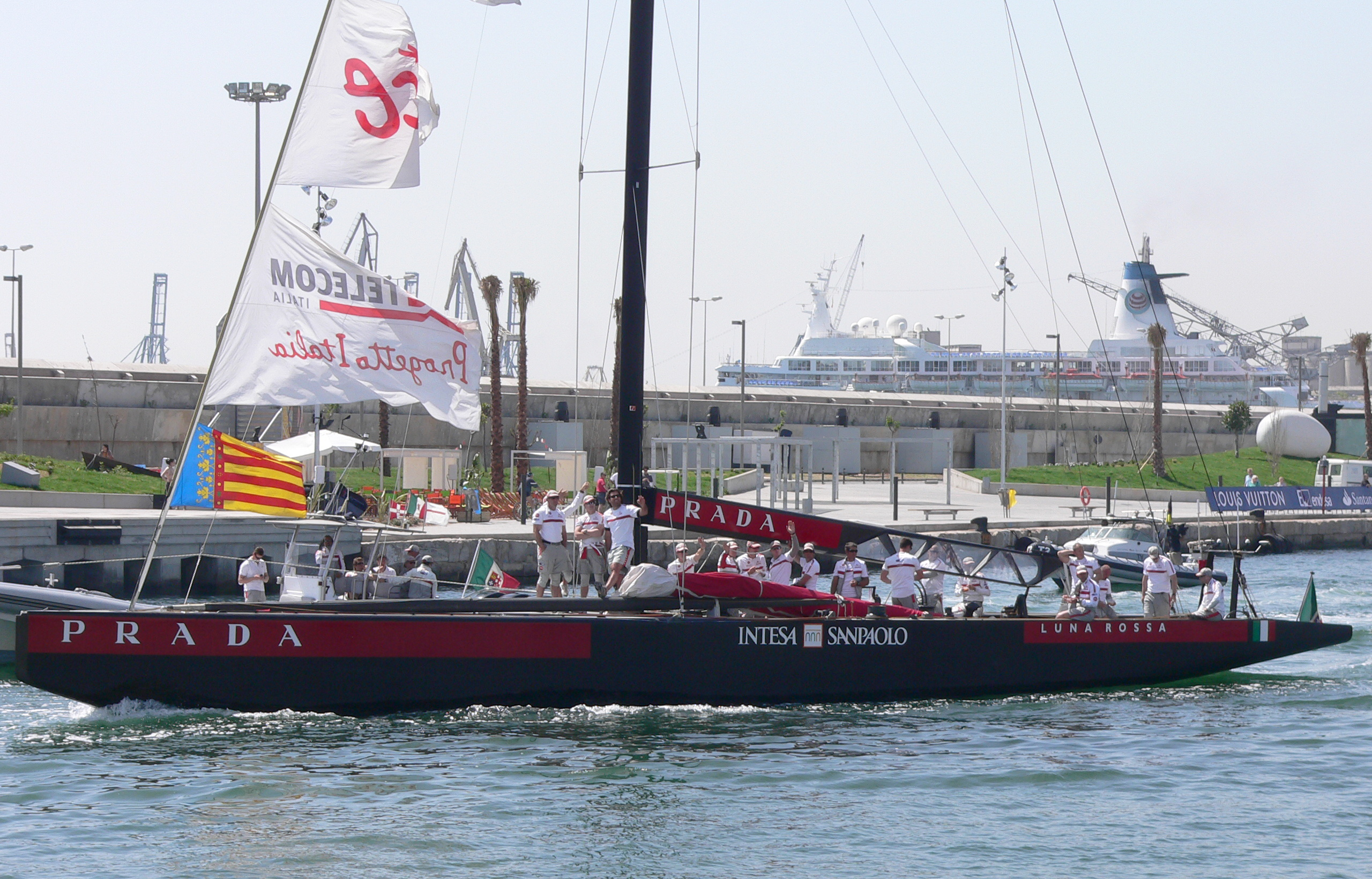 America´s Cup 2007 ITA 94 Luna Rossa Challenge